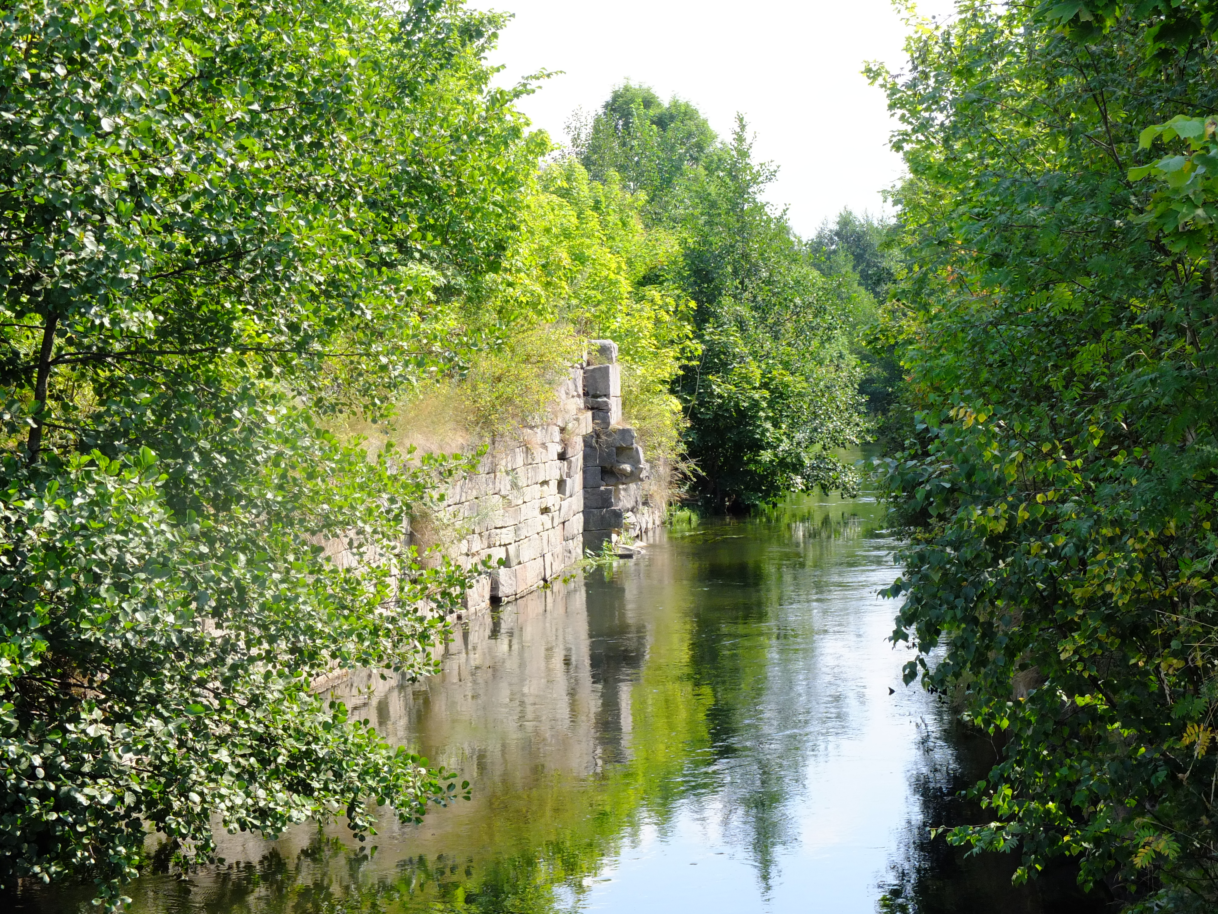 The old lock "Ulrika Eleonora", Hjälmare canal, Sweden